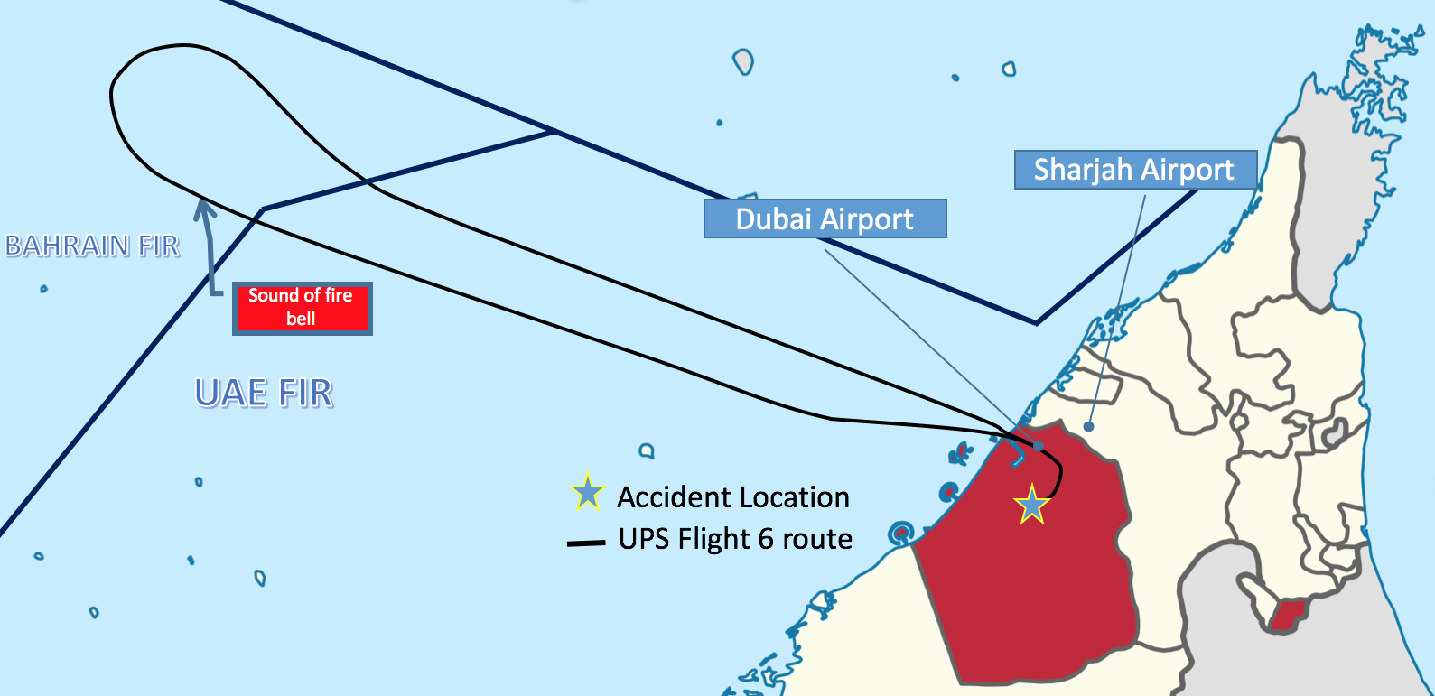 Flight Route of UPS Flight 6 crashed in Dubai 09/03/10